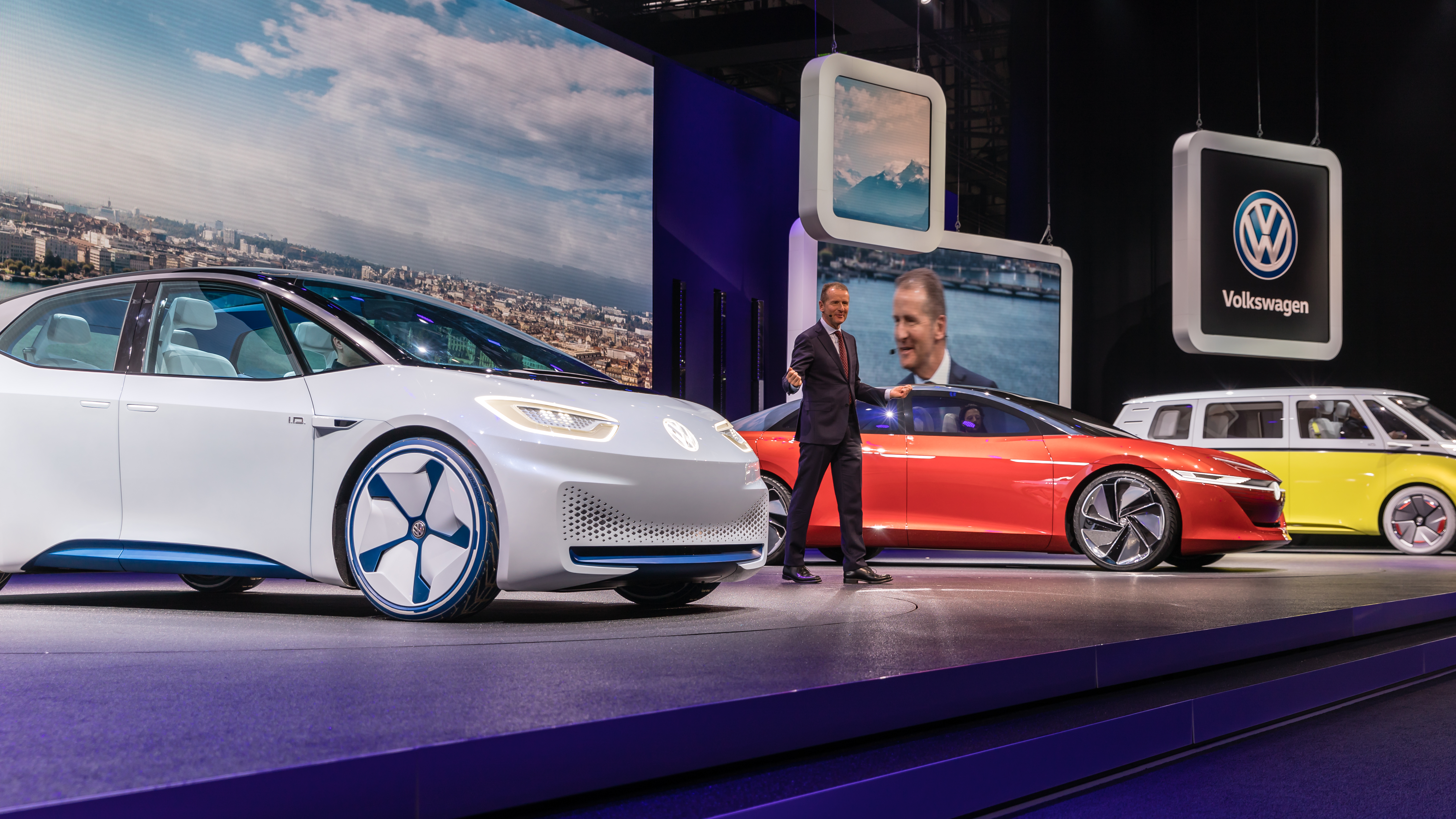 Herbert Diess presents the ID lineup, Geneva International Motor Show 2018